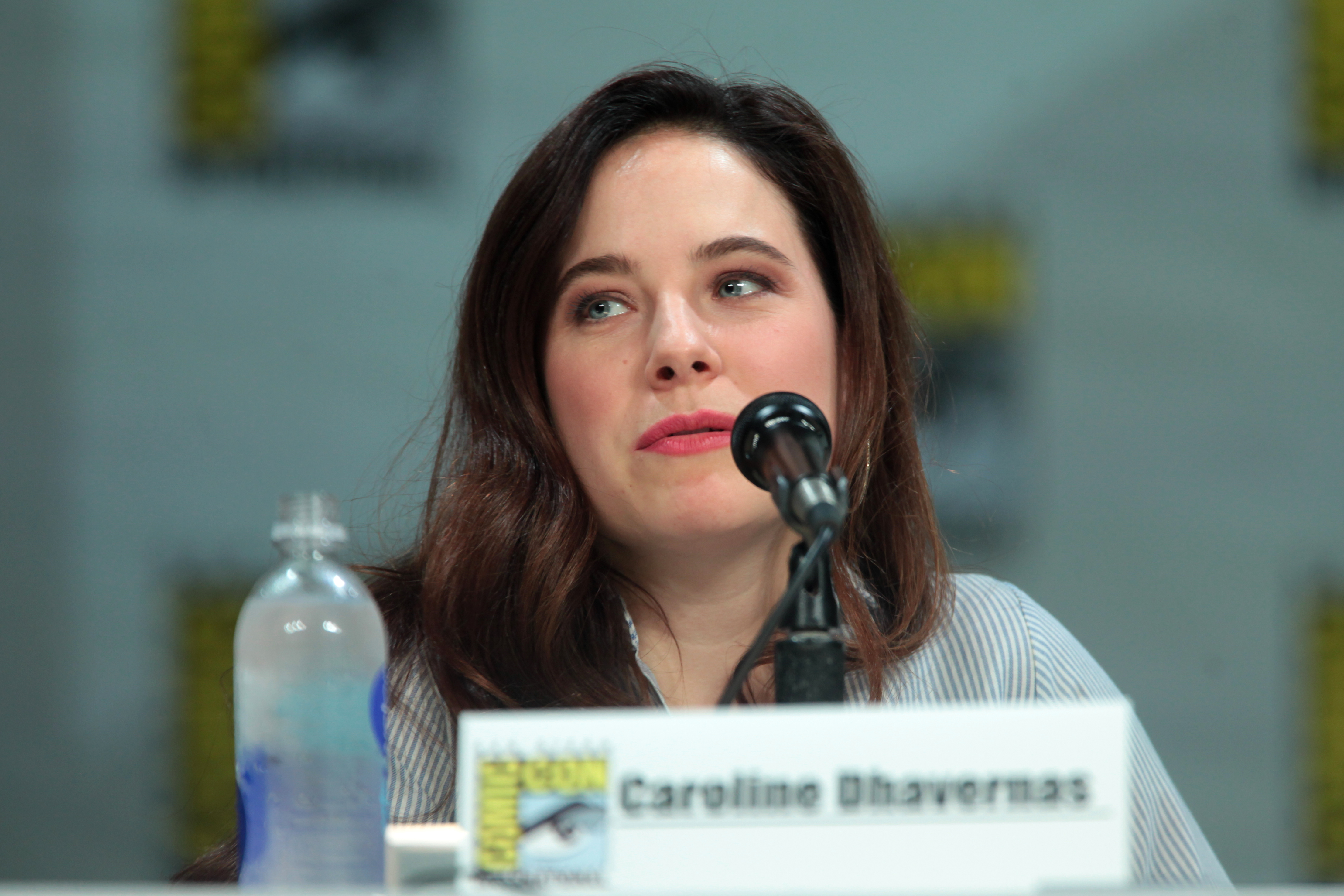 Caroline Dhavernas speaking at the 2014 San Diego Comic Con International, for "Hannibal", at the San Diego Convention Center in San Diego, California.